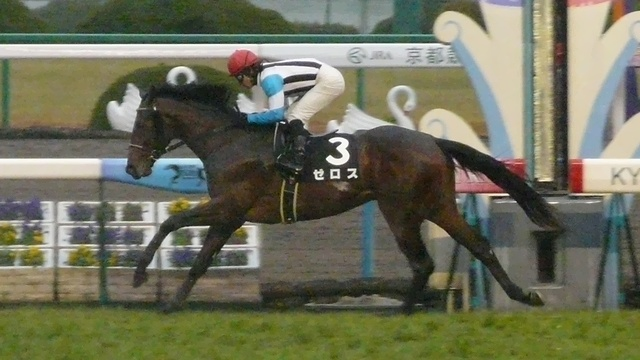 Zelos20120121